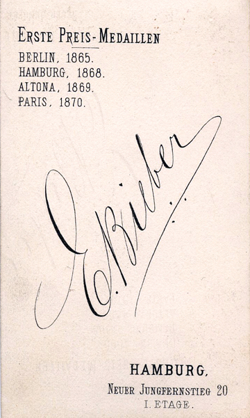 revers CdV E. Bieber about 1872. Names of locations/towns and year for donated medals